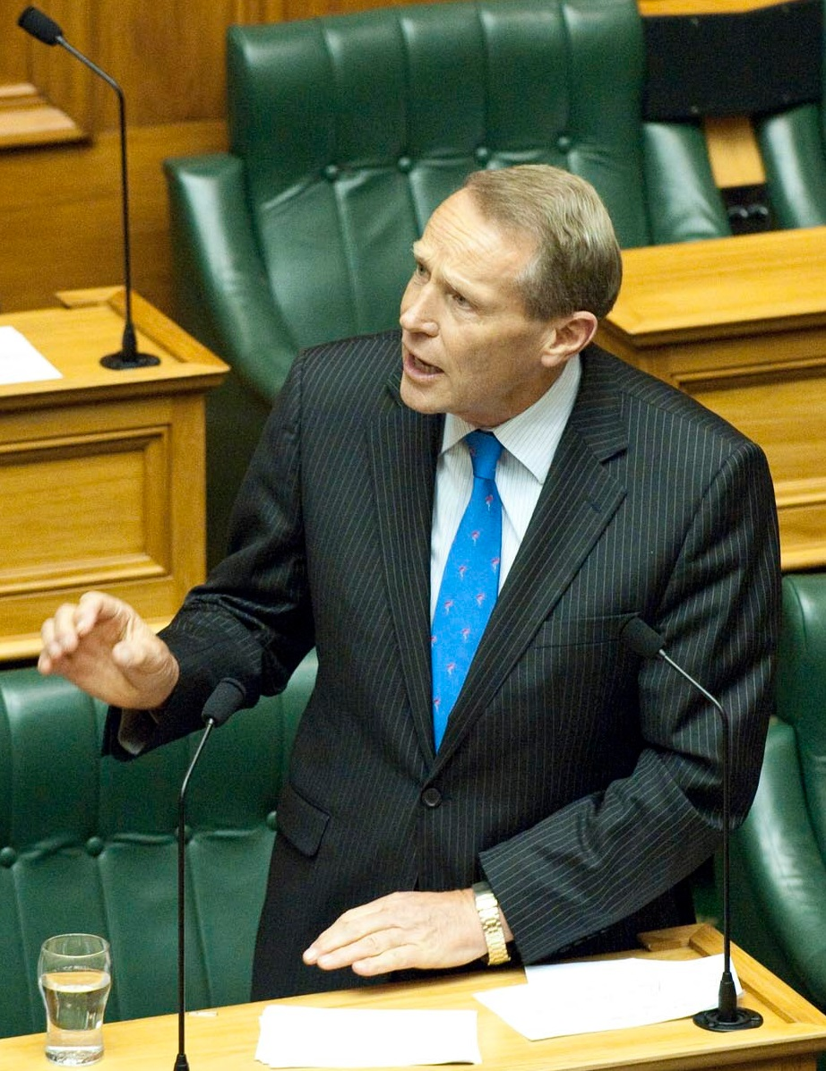 Pacific Parliamentary and Political Leaders Forum, 2013 : New Zealand Parliamentary Debate on Pacific Issues. Dr Paul Hutchison, National Party.